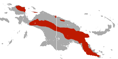 Raffray's Bandicoot (Peroryctes raffrayana) range